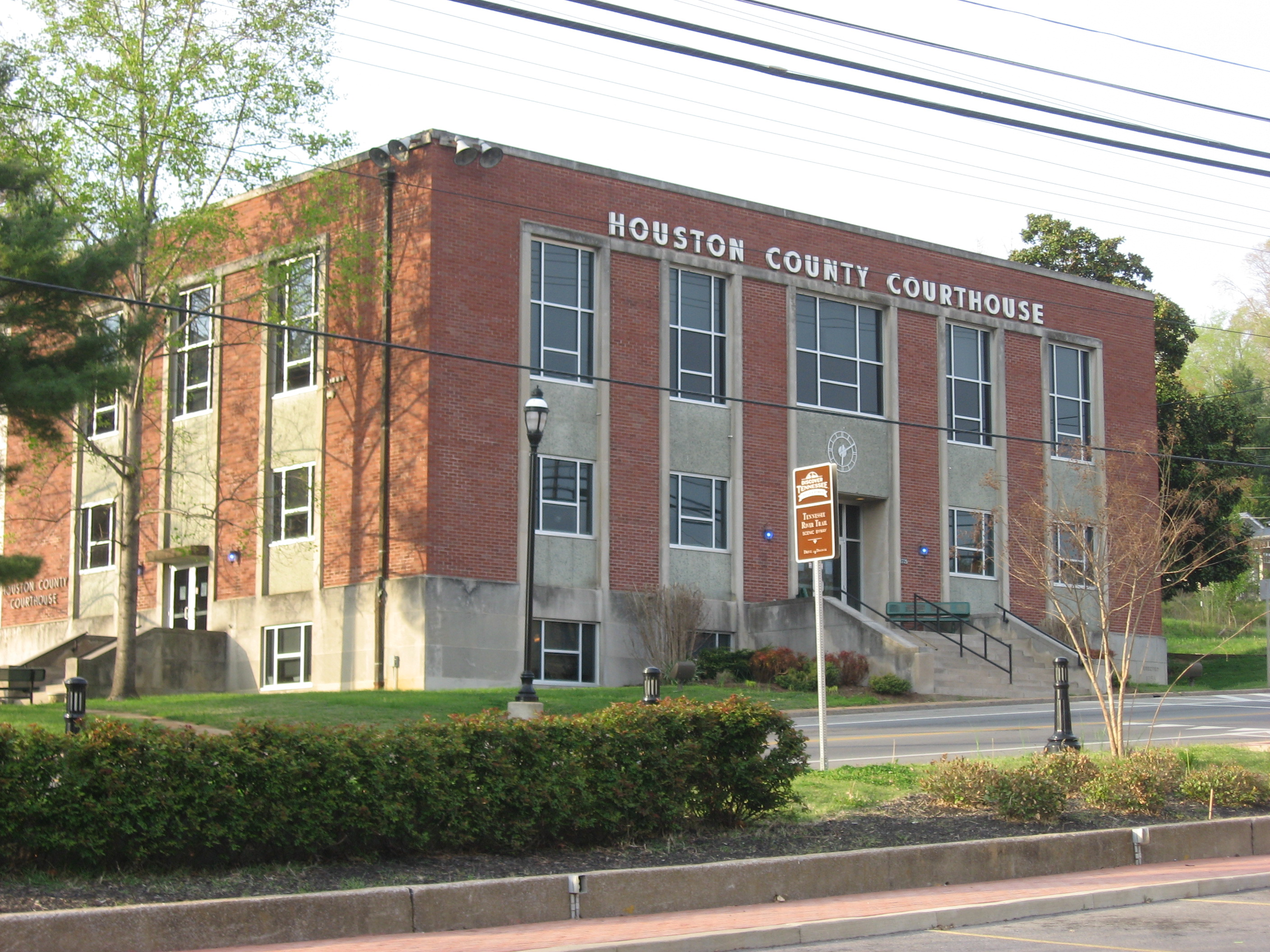 Front of the Houston County Courthouse, located at 4725 E. Main Street (State Route 49) in Erin, Tennessee, United States. It was built in 1957.